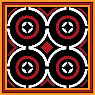 ne' limbongan (the legendary designer), a Torajan pattern